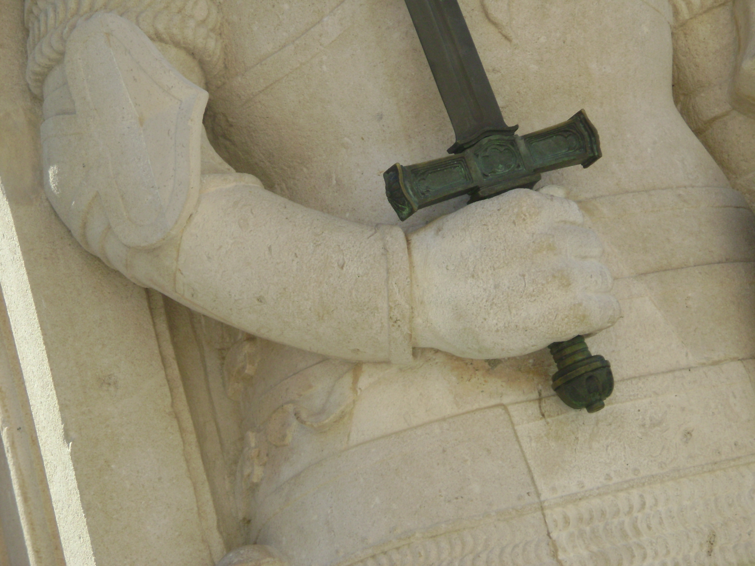 Dubrovnik, old town, monuments Orlando elbow (Unit for length)